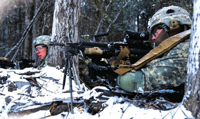 U.S. Army Alaska - Northern Warfare Training Center